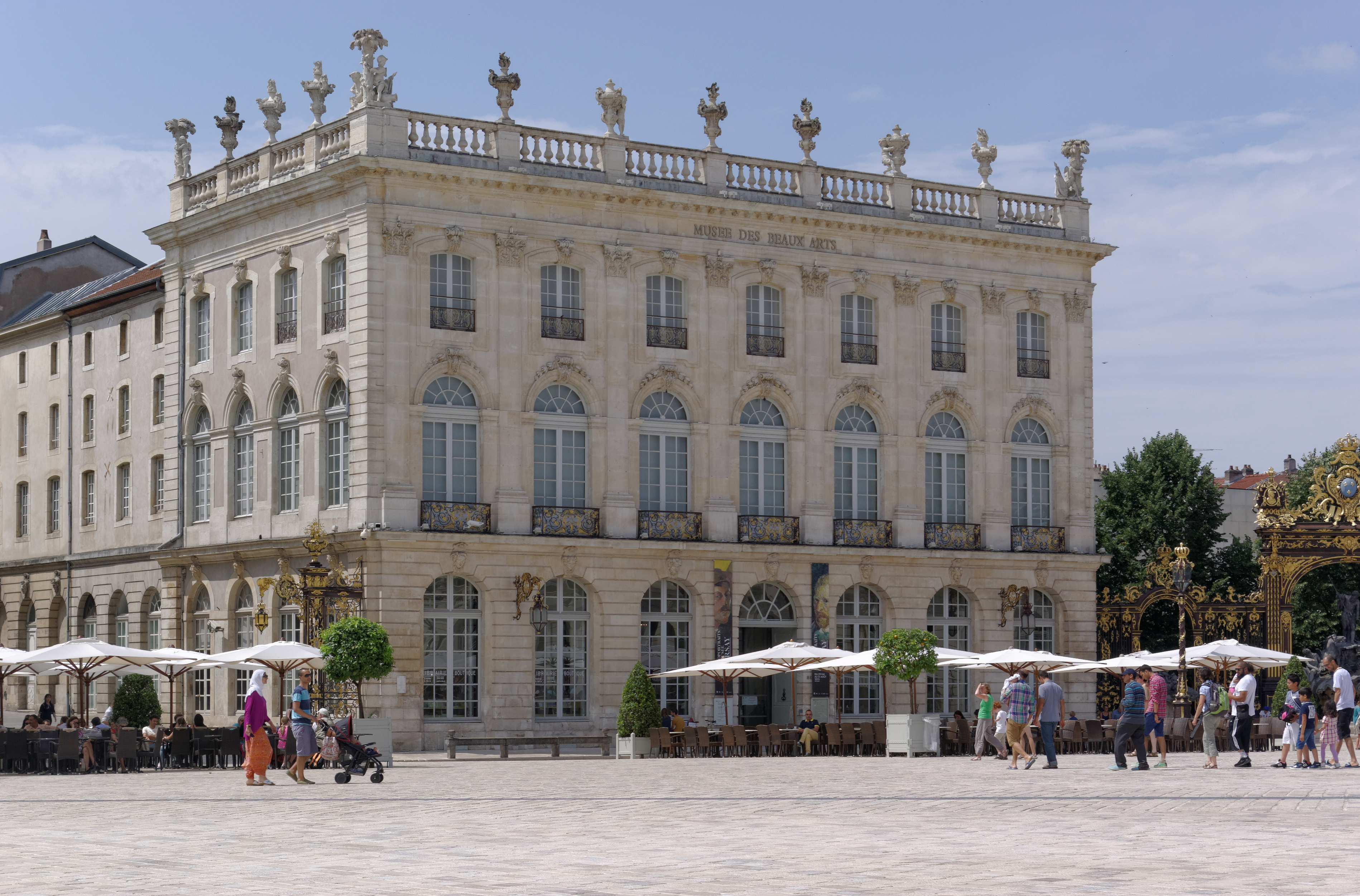 France, Nancy, 3 Place Stanislas, Musée des Beaux-Arts